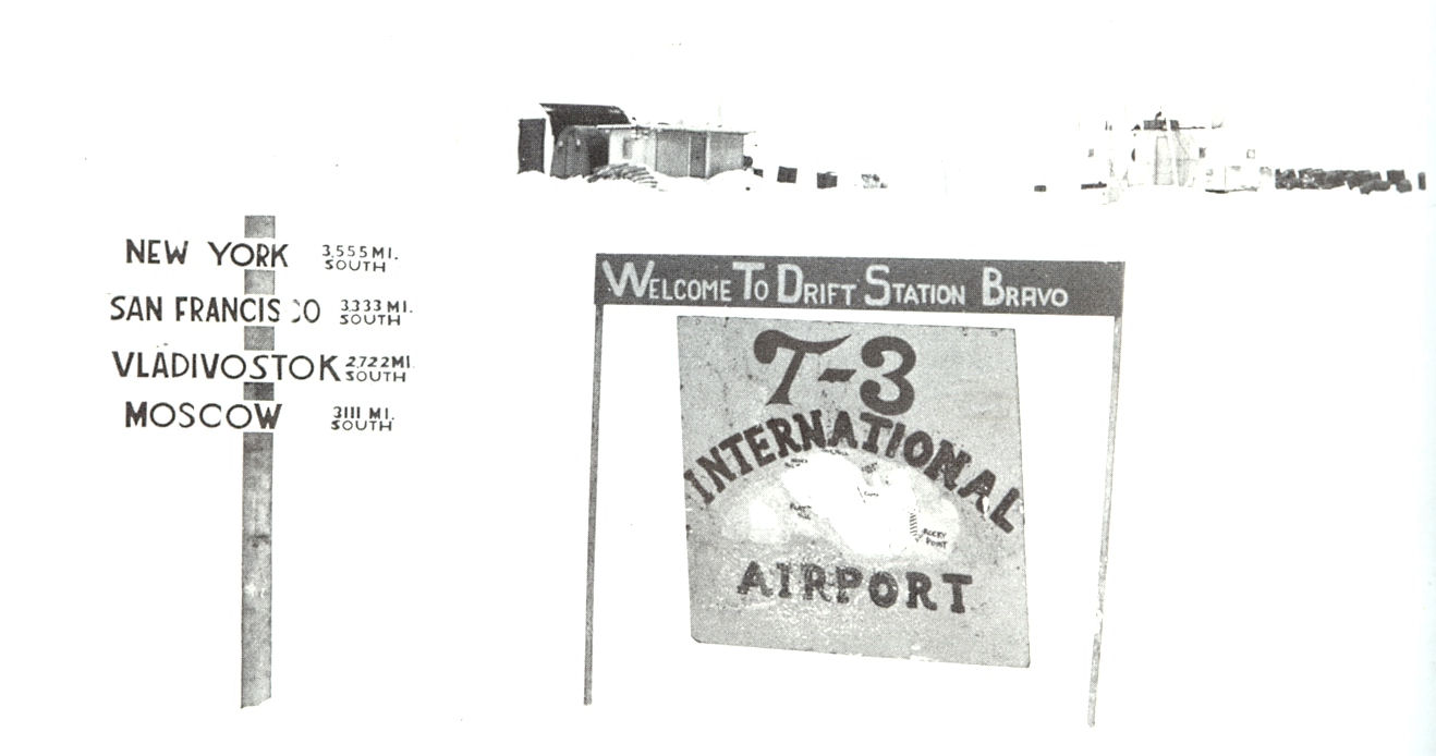 Sign at USAF Drift Station T-3, 1950s